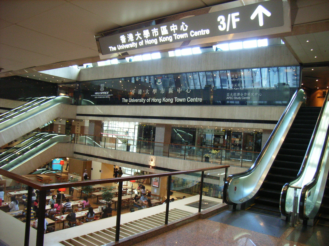 Admiralty Centre, HK Island Photo by